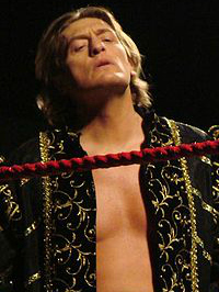 William Regal as IC Champion